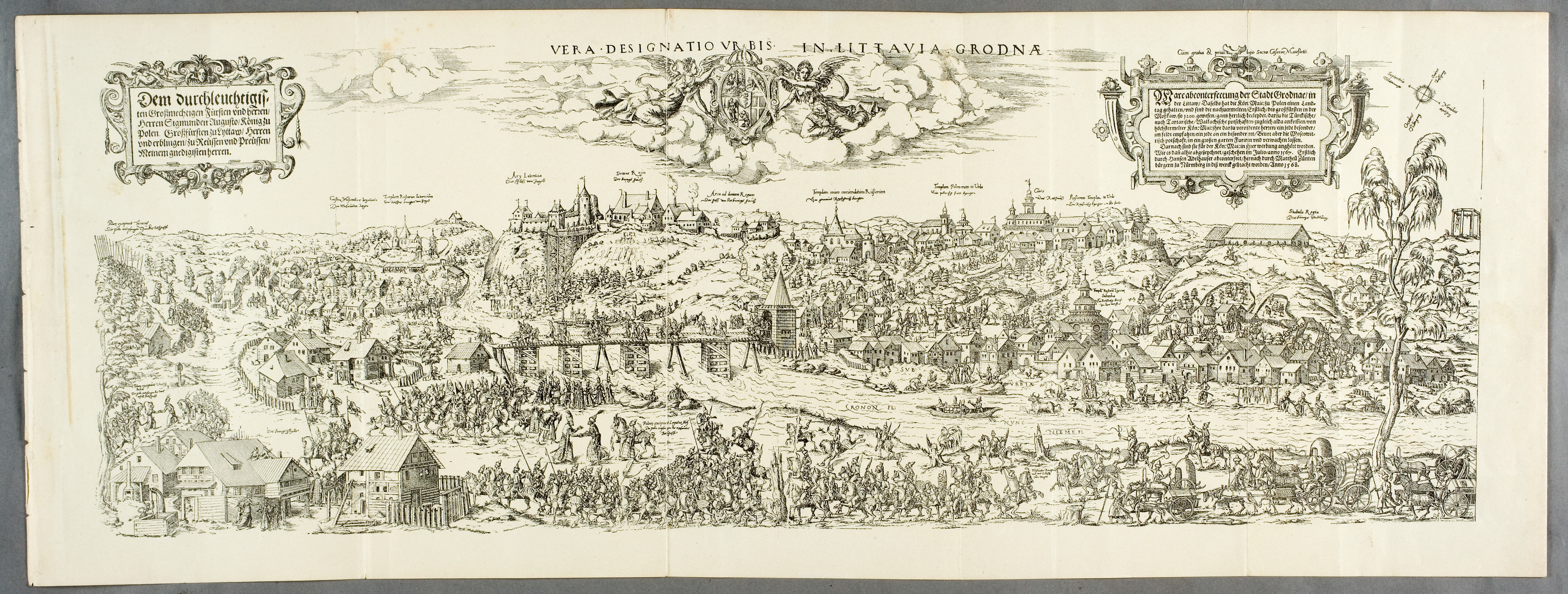 VERA DESIGNATIO URBIS IN LITTAVIA GRODNAEGeorg Braun et Frans Hogenberg. Civitates orbis terrarum. Coloniae Agrippinae Köln, 1576.From Vilniaus Universiteto Biblioteka